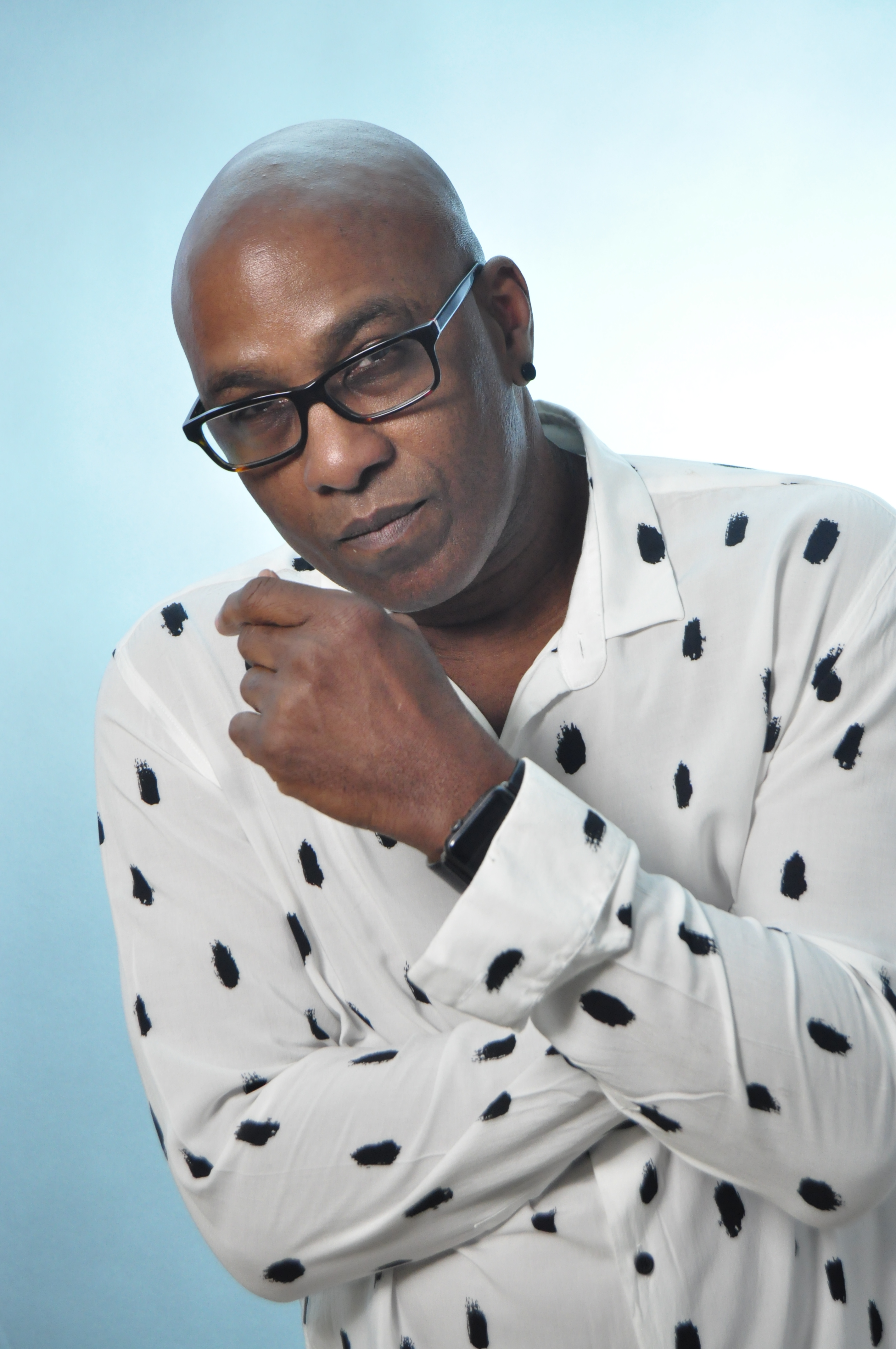 Tomi Jenkins head shot